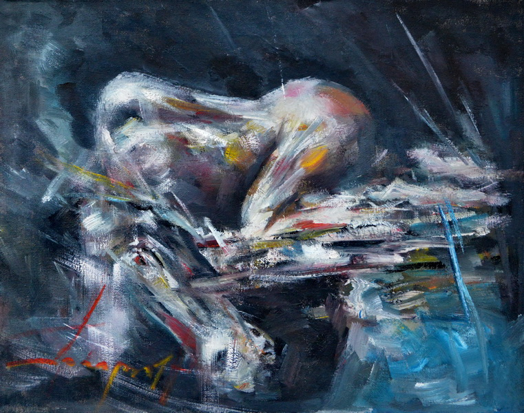 A specific depiction of a woman at the dock, depicting her emotions and physical state being guilty, highlighted with the variety of blue palette.